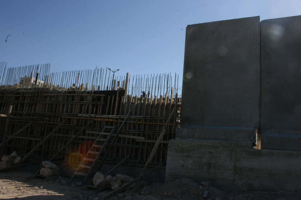 A portion of the wall being built on stolen Palestinian land even if its position has not been decided yet by the Supreme Court of Israel - Photo by Stella